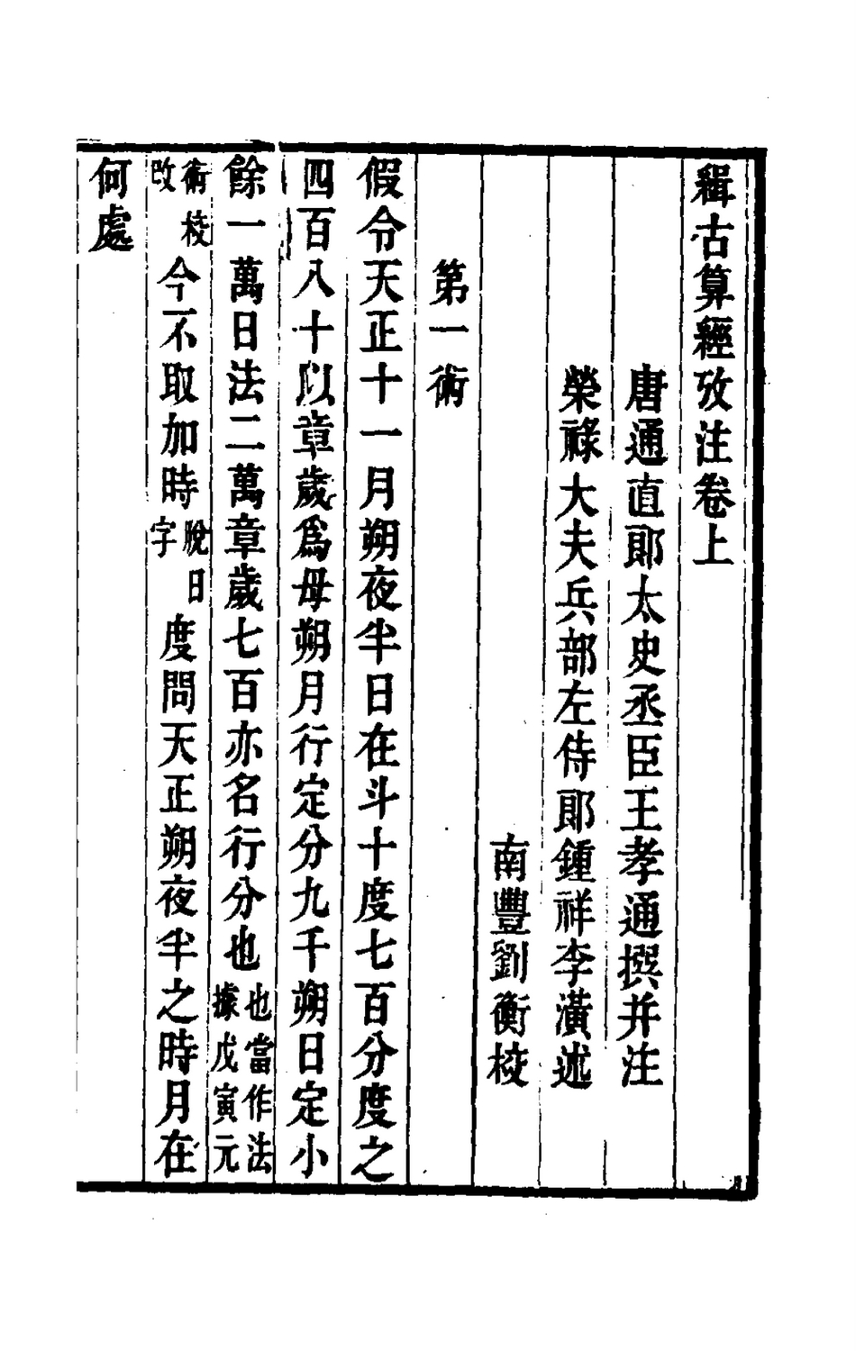 A facimile of Siku Quanshu version of Tang dynasty mathematic book Jigu Suanjing